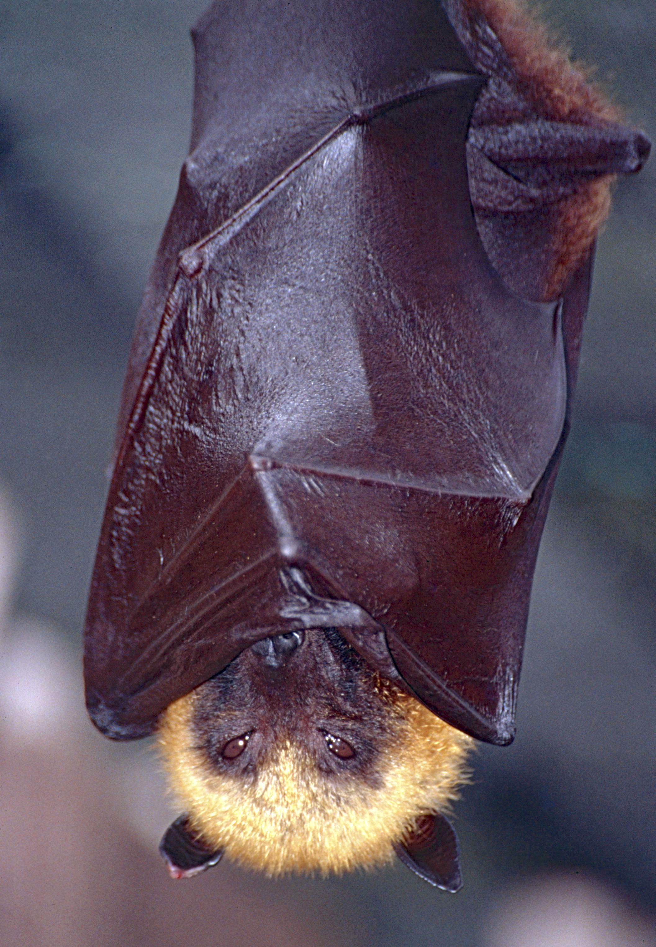 Réserve Peyrieras, Moramanga, MADAGASCAR Scanned Slide from 1998